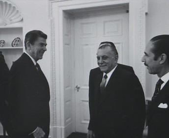 Visit of President Designate Roberto Viola.